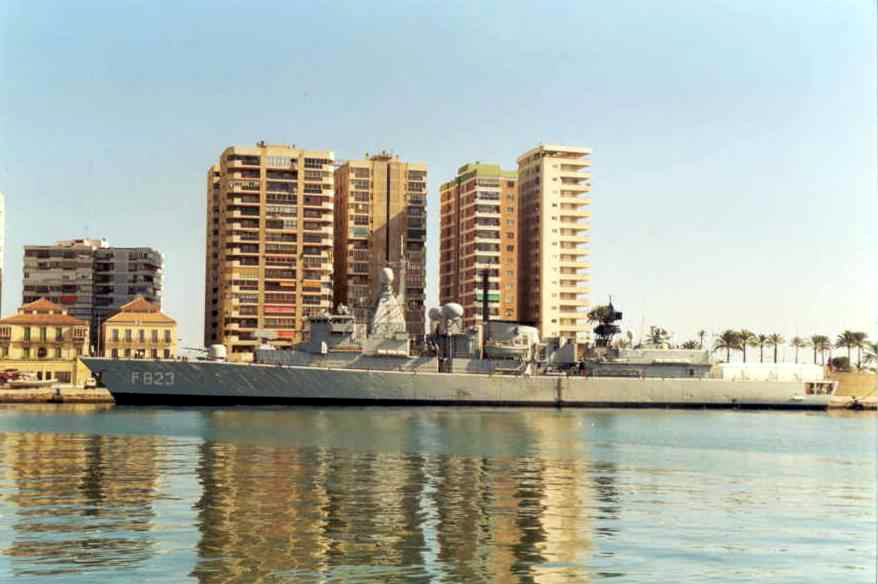 Dutch frigate Philips van Almonde